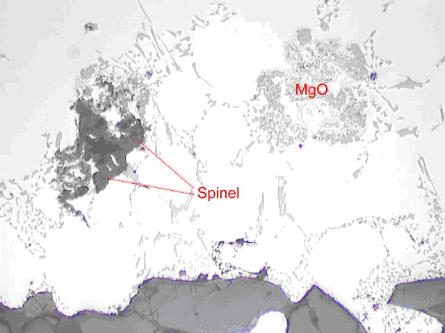 Example of spinel and magnesium oxide inclusion in liquid aluminium observed an optical microscope at high magnification from a PoDFA sample.